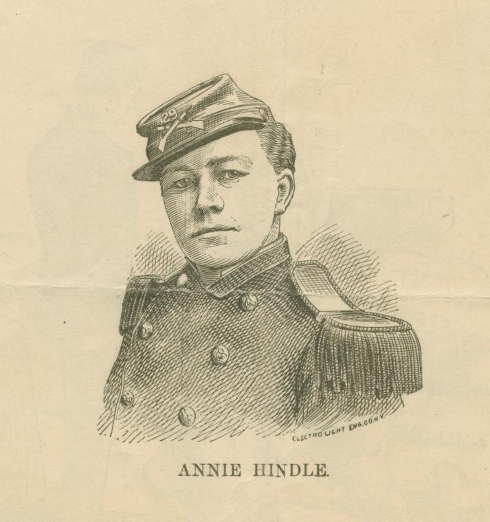 This is a sketch of male impersonator Annie Hindle